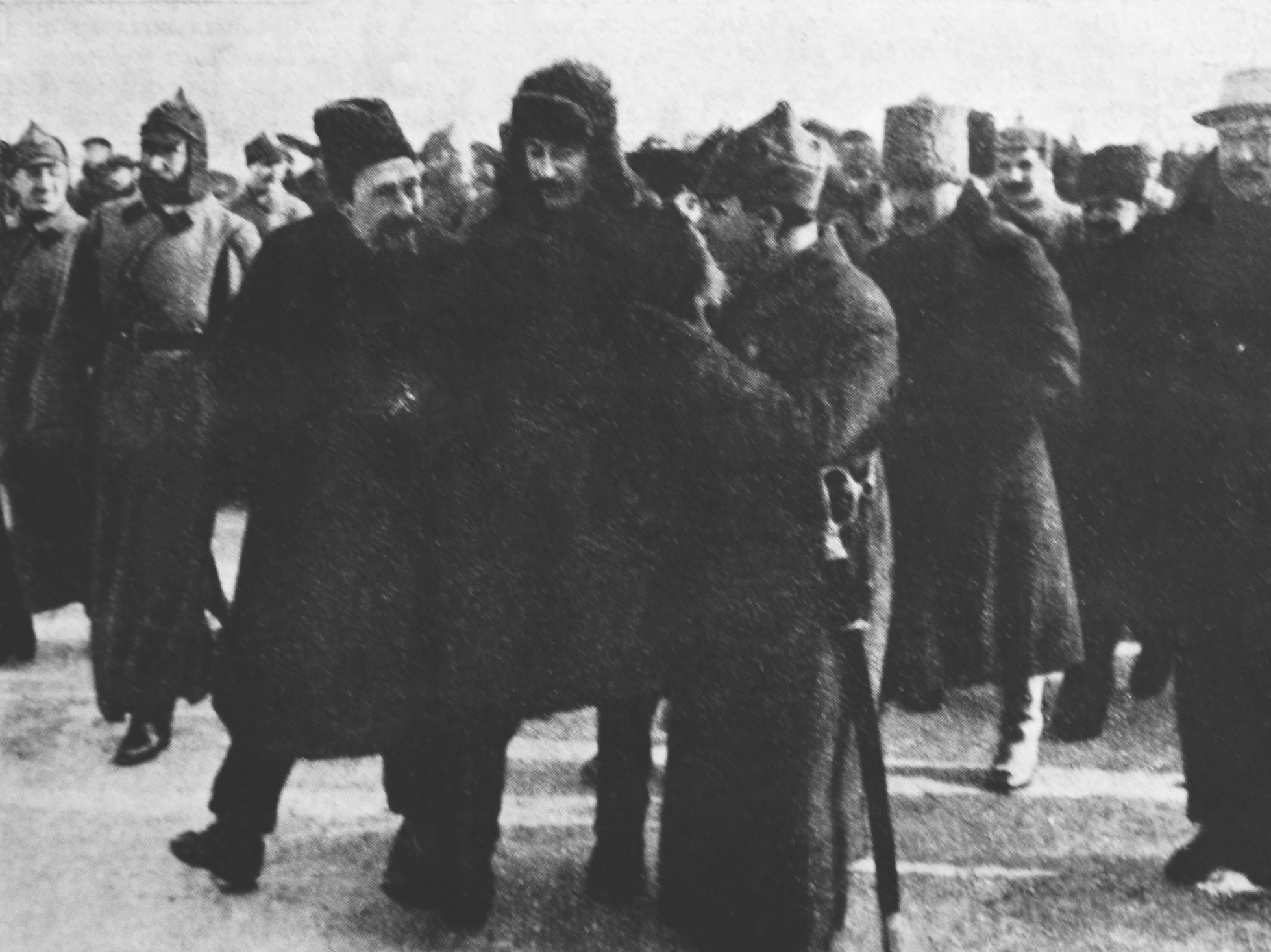 Alexey Rykov, head of the Soviet Government, Joseph Stalin, General Secretary of the Communist Party and Klim Voroshilov, Soviet Minister of Defense. The photo date Feb 23 1928. Red Square celebration of the 10th anniversary of the Red Army.